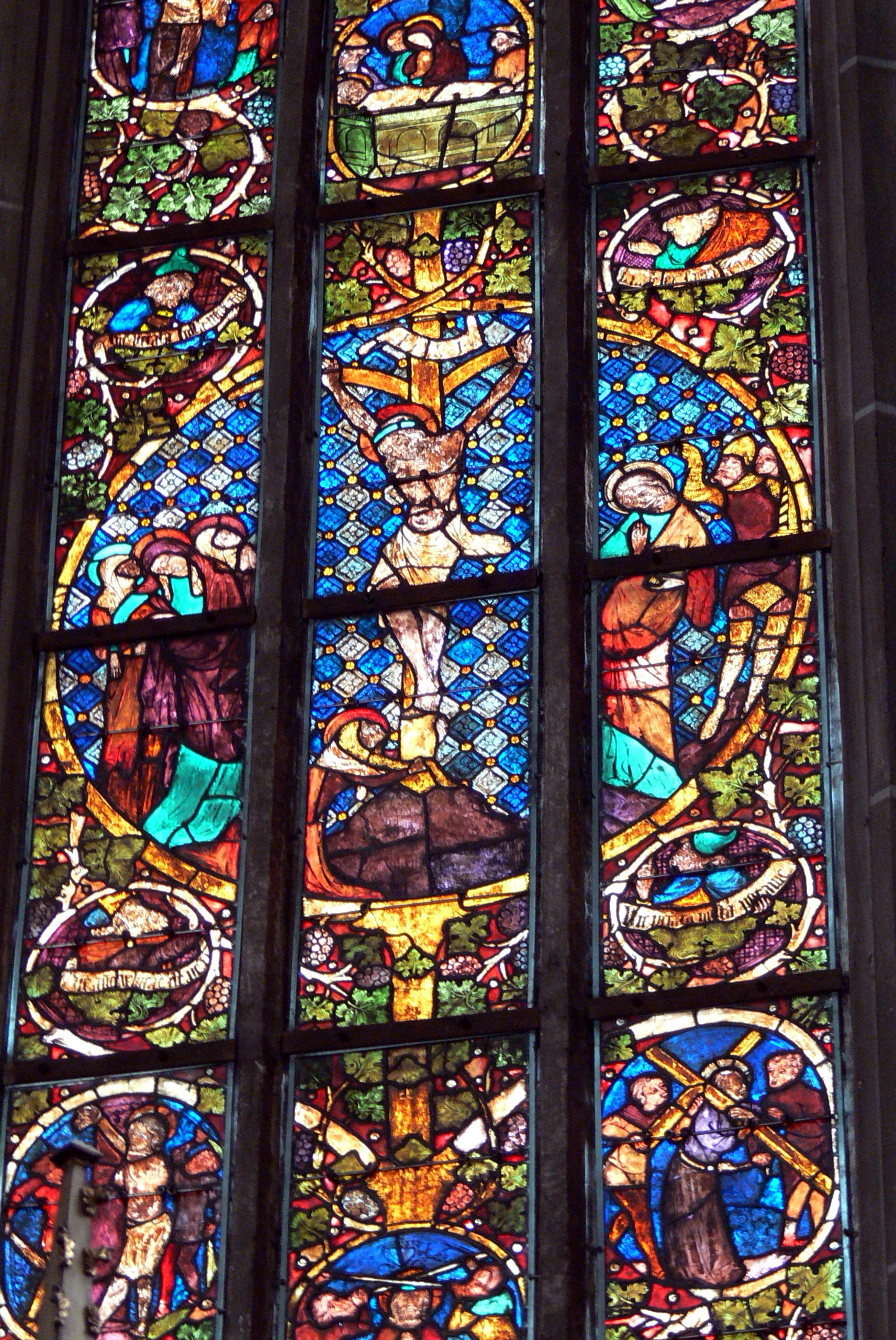 Wels ( Upper Austria ). City church: Gothic stained glass windows ( 14th century ): Crucifixion of Christ.